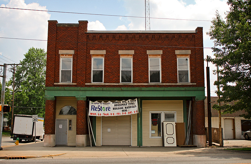 This building at 1831 Wabash used to be Terre Haute's Fire Station No. 8. It's on the National Register of Historic Places.